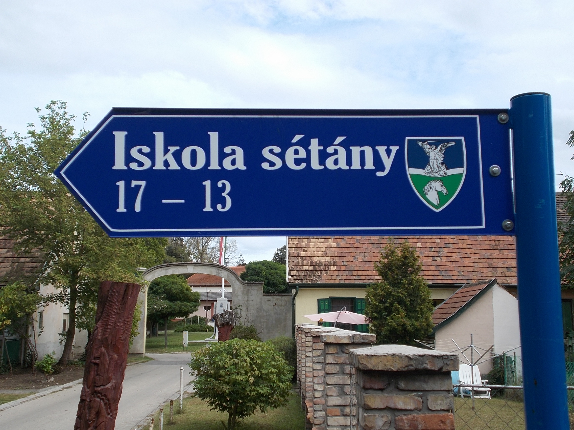 Fingerpost - Iskola Promenade, Gyártelep neighborhood, Dunakeszi, Pest County, Hungary.